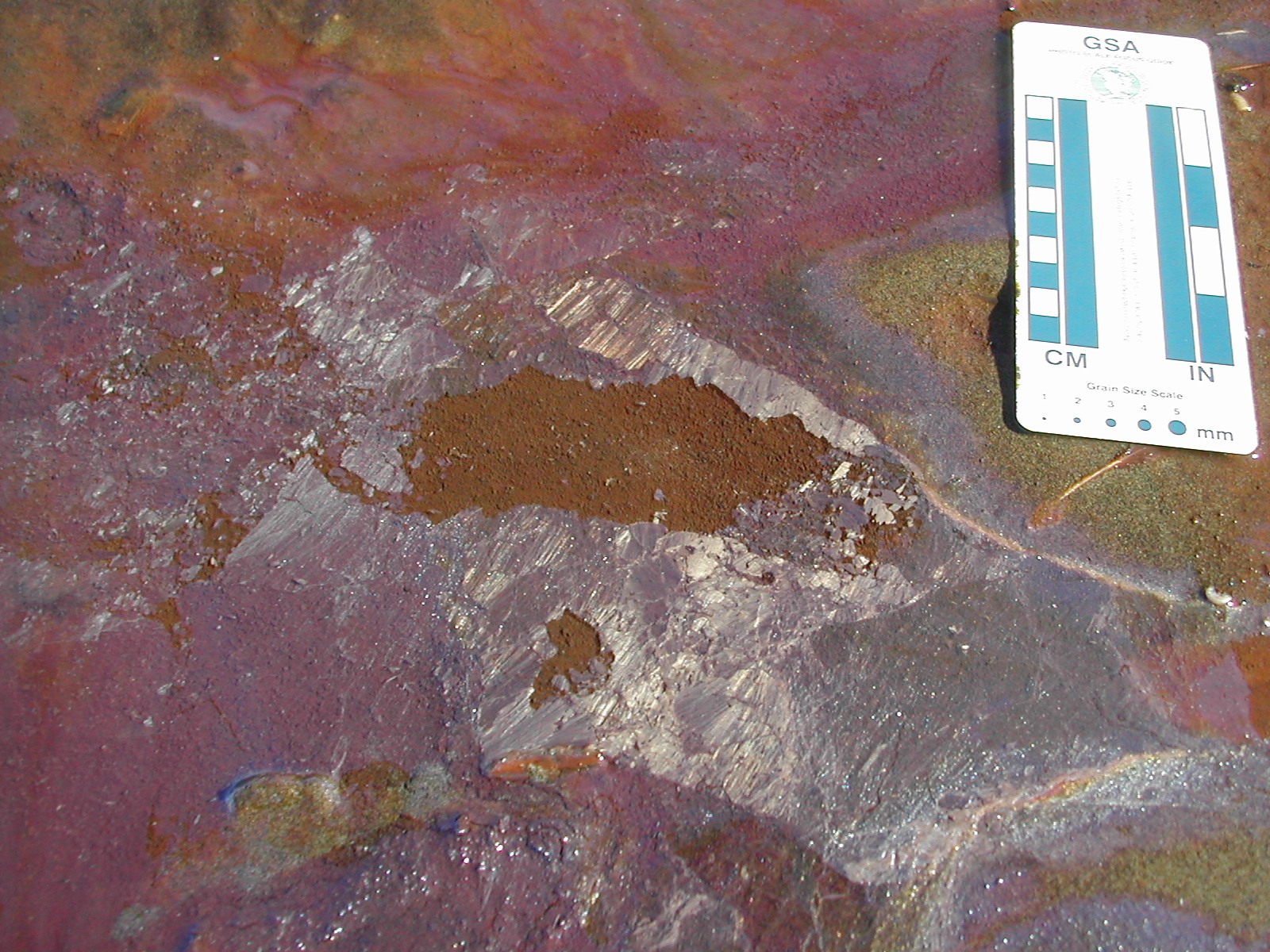 Schwimmeisen on a body of stagnant water in the Driftwood Beach State Recreation Site in the state of Oregon, United States. In mineralogy and hydrology, the term Schwimmeisen describes thin films of oxidizing floating iron on the surface of shallow and, in most cases, only temporary bodies of stagnant water. (The technical terminology in German is also used in English-speaking publications.)